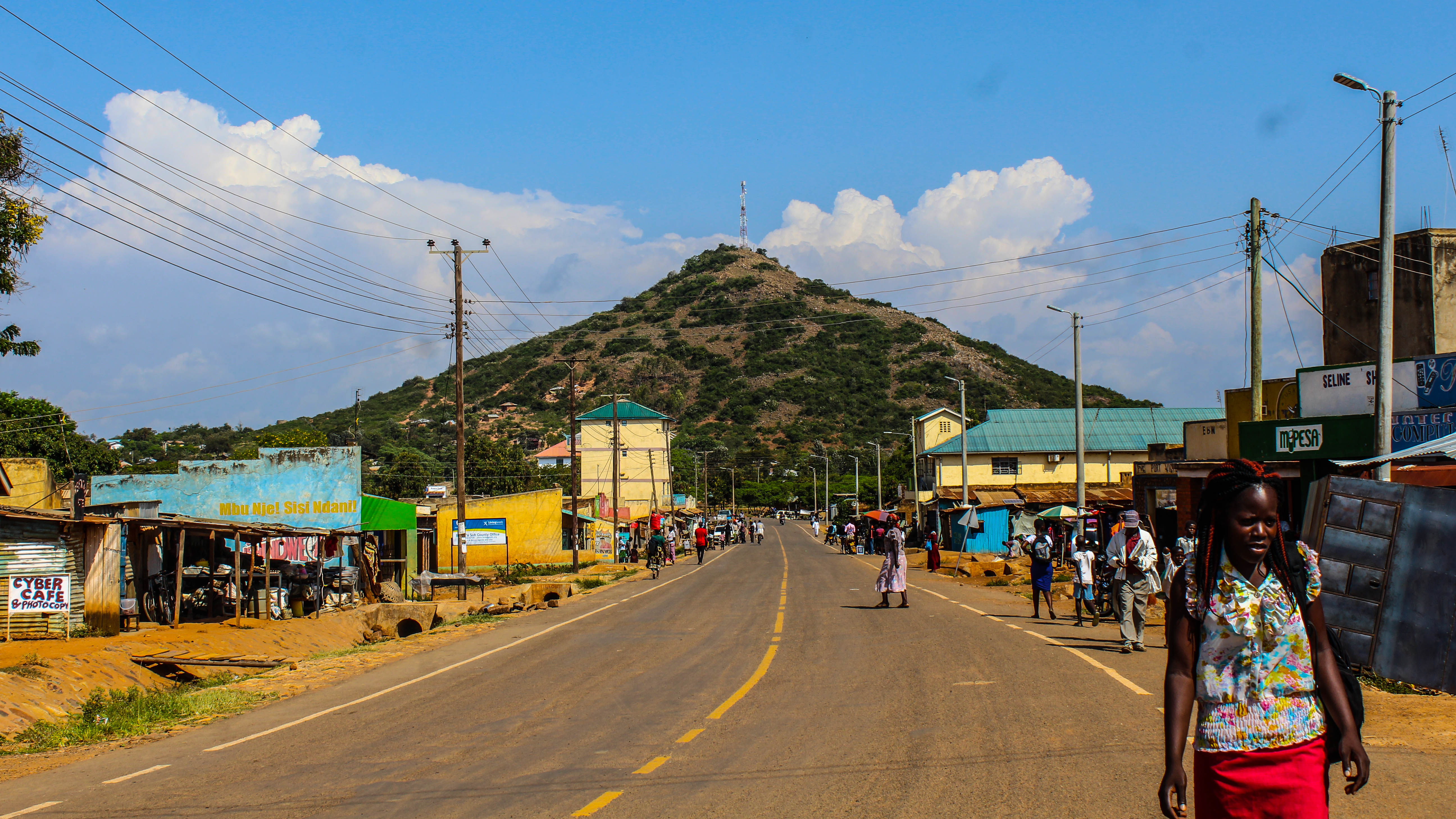 Port Victoria Town